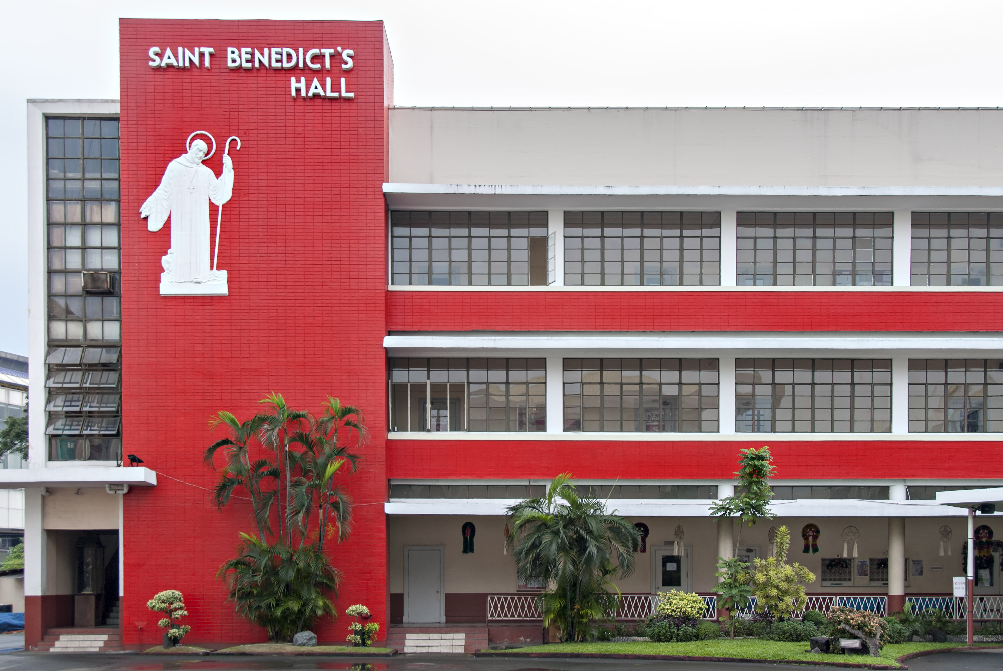 Named after the Venerable Bede of England, San Beda College was established by Spanish Benedictine monks in Manila during the onset of the American colonial era.